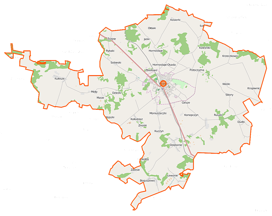 Map of Gmina Mońki, PolandThis map of Mońki (gmina) was created from OpenStreetMap project data, collected by the community. This map may be incomplete, and may contain errors. Don't rely solely on it for navigation.